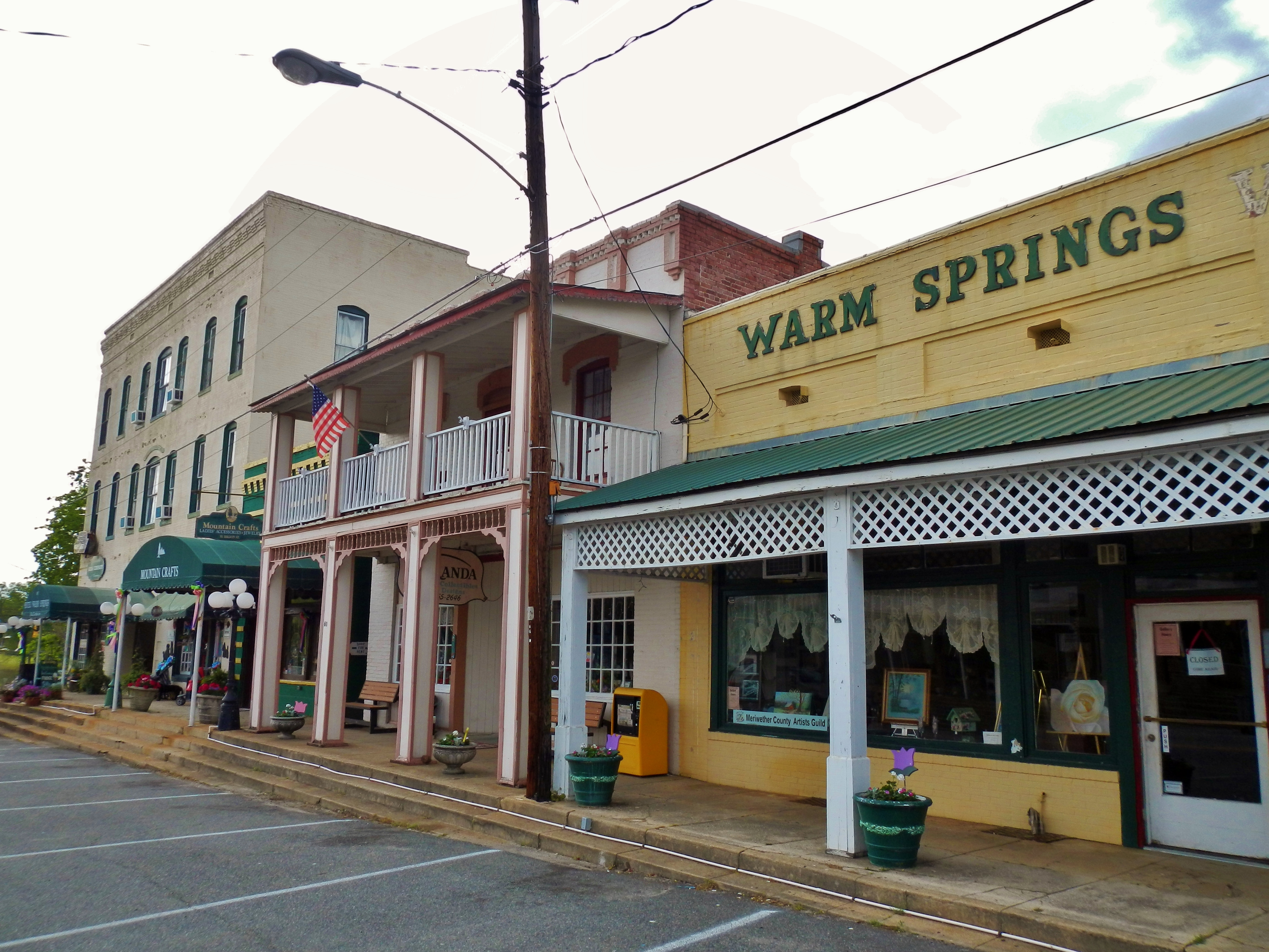 This is a photo of Broad Street in Warm Springs, Georgia, USA. It was taken by me, Rivers Langley.